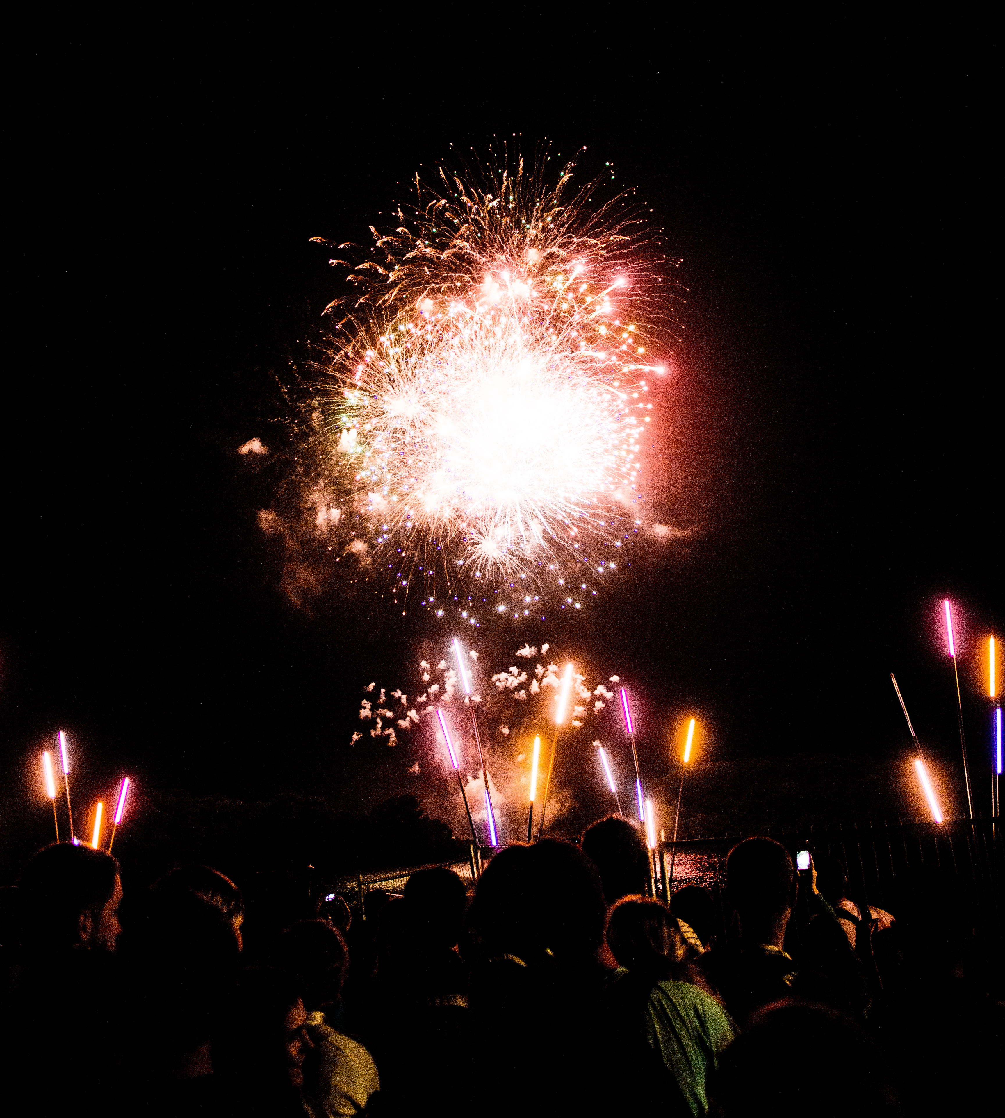 Follow me on facebook Twitter : @didyPhotography All the photographies I've made are now under CC0 (Creative Commons Zero) CC0 - learn more To the extent possible under law, Eddy BERTHIER has waived all copyright and related or neighboring rights to Fireworks @ Eurockéennes de Belfort 2013. This work is published from: France.